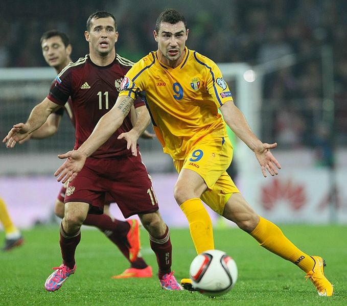 Artur Ioniță (front) and Alexander Kerzhakov (back) at match Russia - Moldova, on 12.10.2014